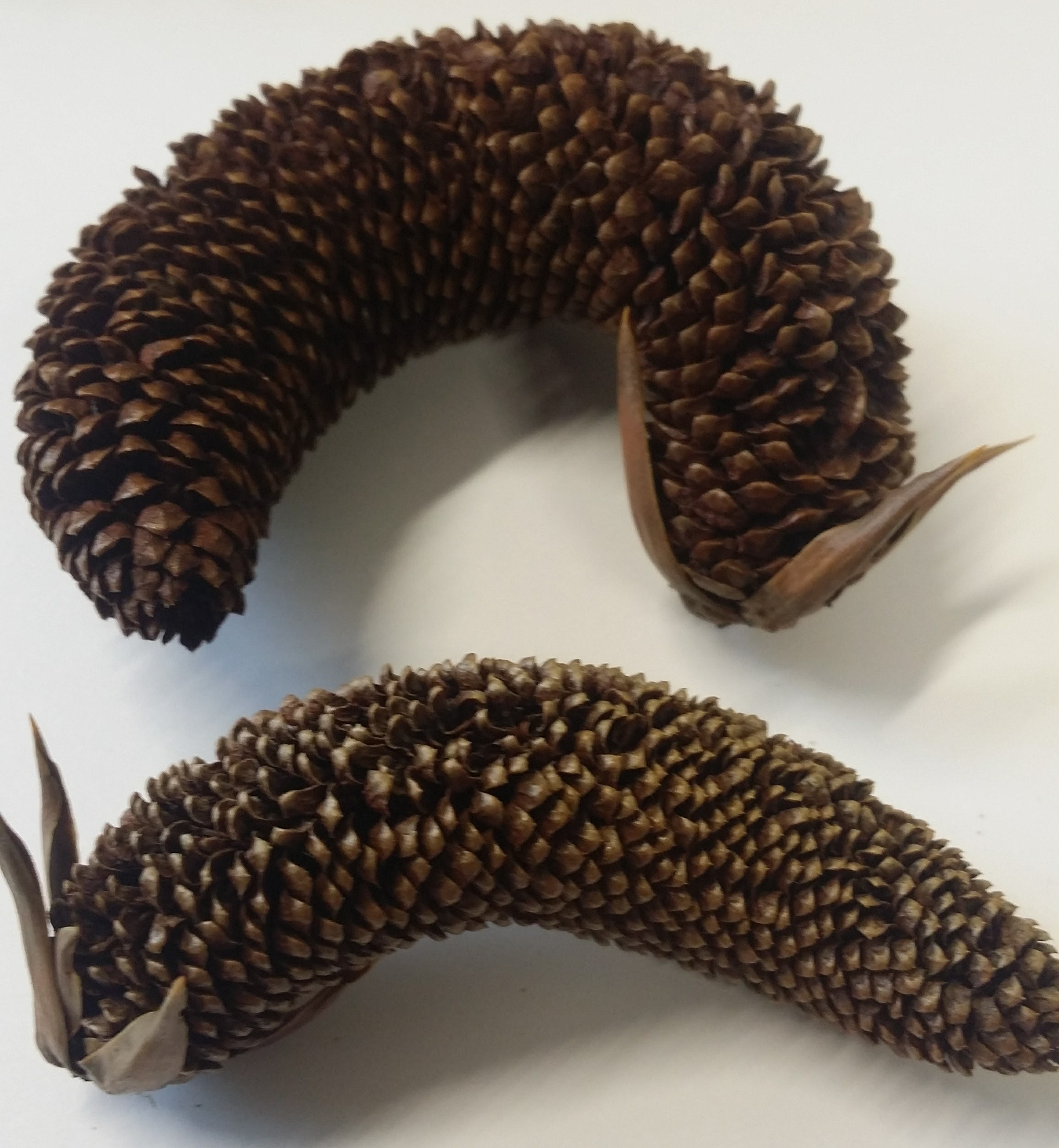 Male cones of Araucaria angustifolia which have released their pollen and fallen from the tree. Observed at the University of Canterbury, Christchurch, New ZelandPortuguês do Brasil: Pinhas masculinas de uma Araucaria angustifolia que liberaram seu pólen e cairam da árvore. Observadas na Universidade de Canterbury, Christchurch, Nova Zelândia